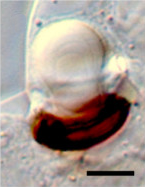 Light micrograph of the ocelloid structure of a single 'Proterythropsis' sp. isolate (a Warnowiid dinoflagellate). Scale bar = 5 microns. This image is lightly edited to remove distracting panel label from Panel E of Figure 1 from Hoppenrath et al. 2009, Molecular phylogeny of ocelloid-bearing dinoflagellates (Warnowiaceae) as inferred from SSU and LSU rDNA sequences, BMC Evolutionary Biology 9:116.